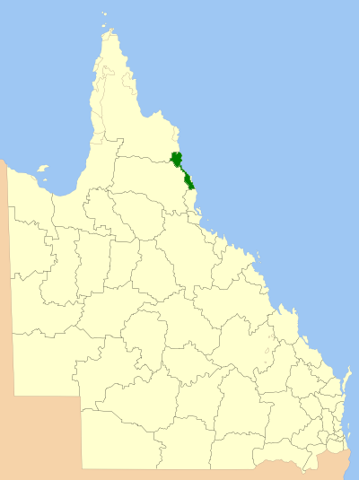 Location of the Local Government Area in Queensland